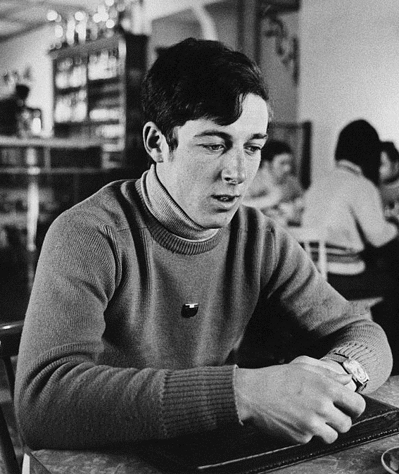 Italian alpine ski racer Gustav Thoeni sitting at a table in his parents' hotel. Stilfs, January 1970